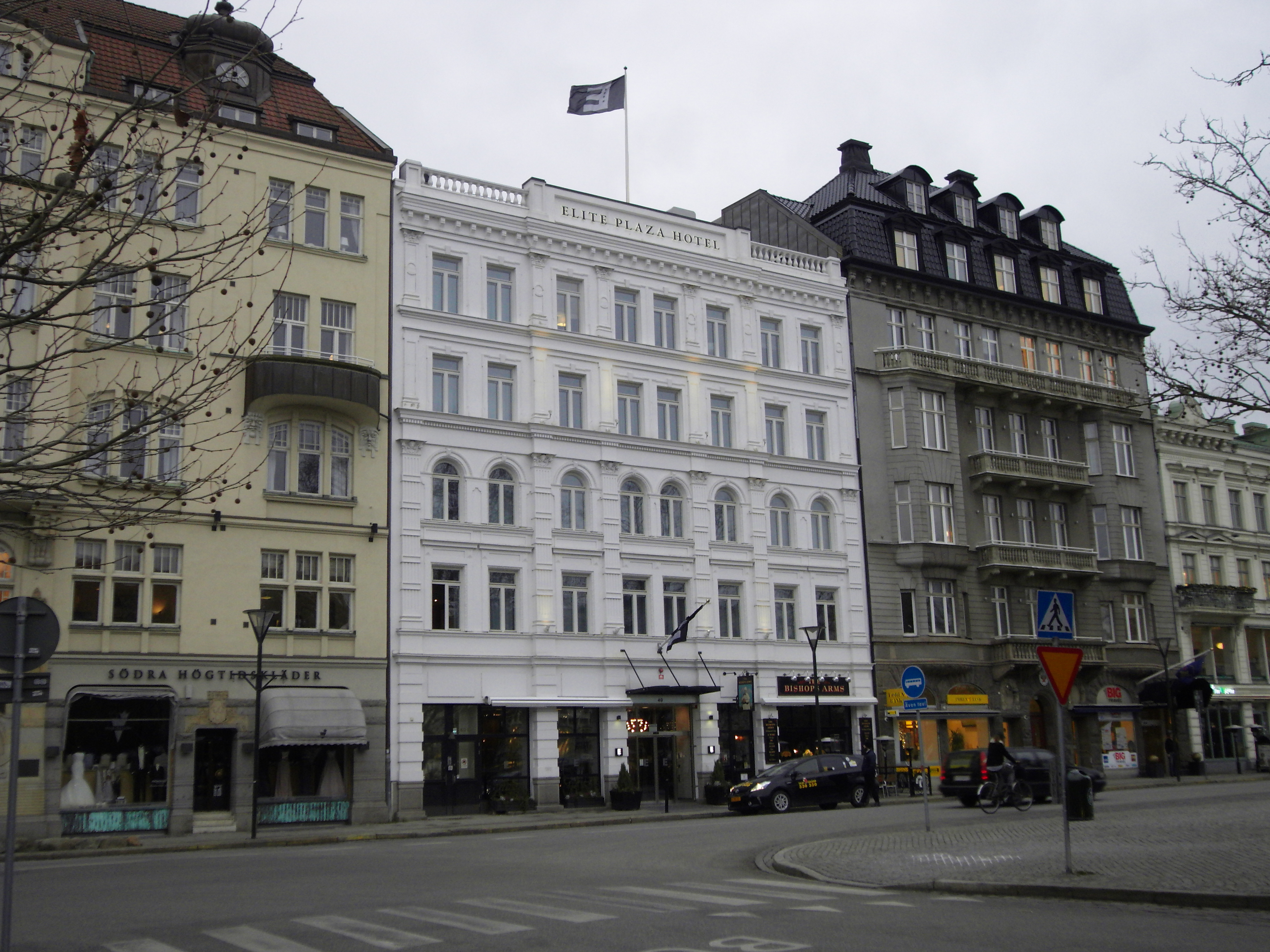 Elite Plaza Hotel at Gustav Adolf Square in the city of Malmo. The picture is photographed 23 January 2014.